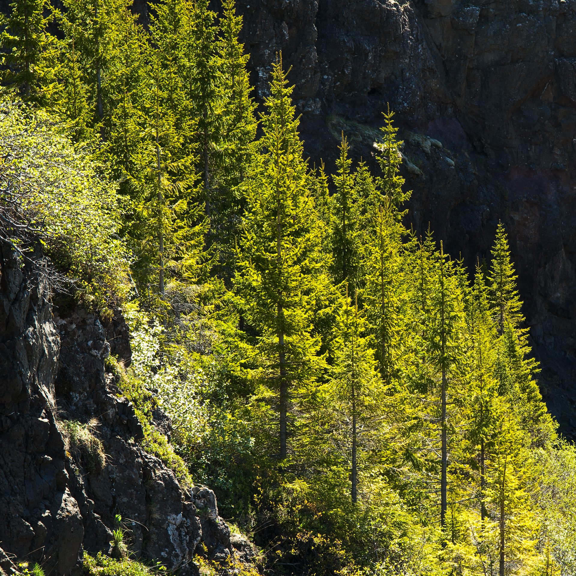 Picea abies (Norway Spruce) in the forest of Jafnaskarð (Jafnaskarðsskógur). Iceland.